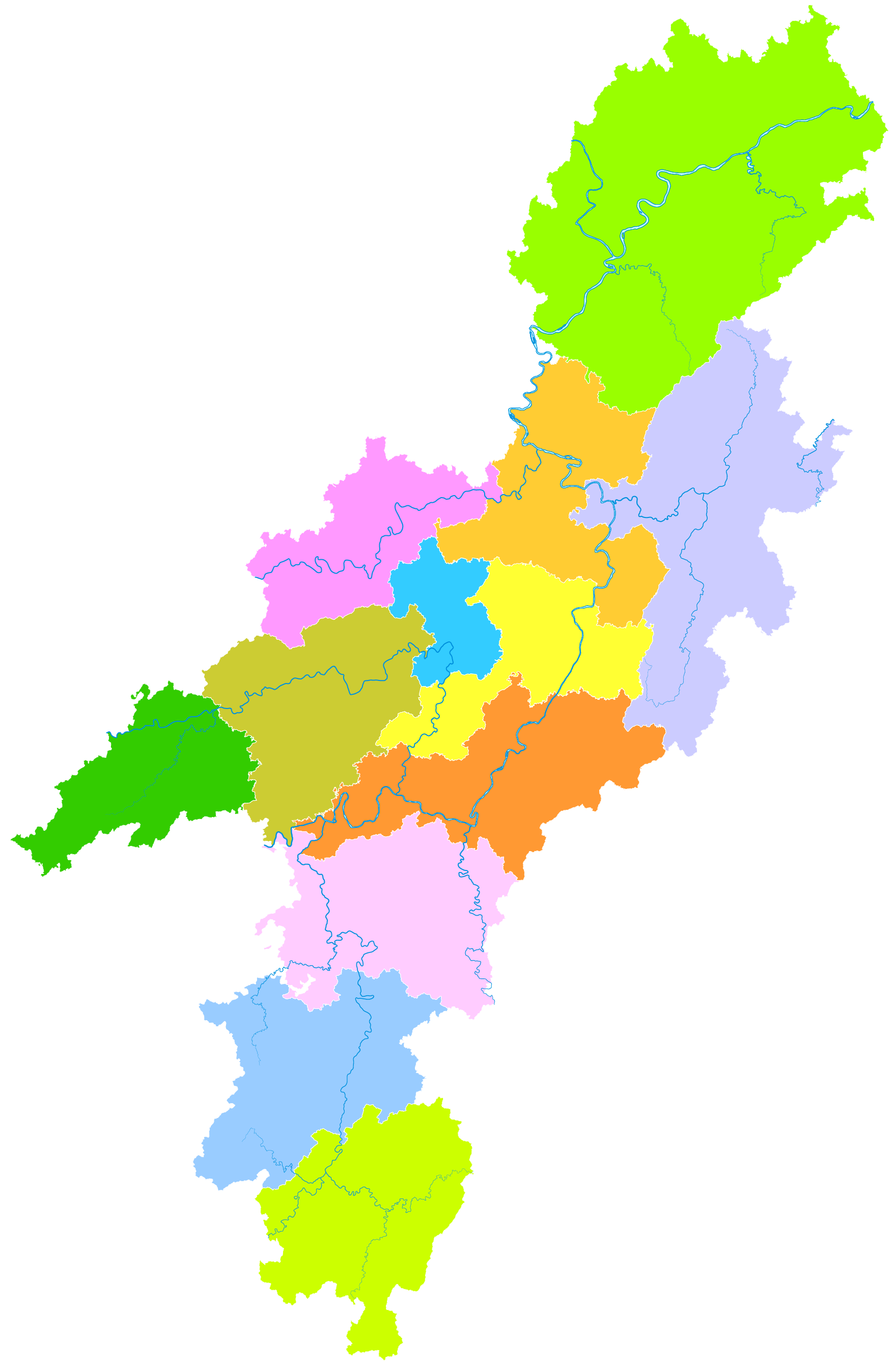 administrative divisions of Huaihua City, Hunan, China